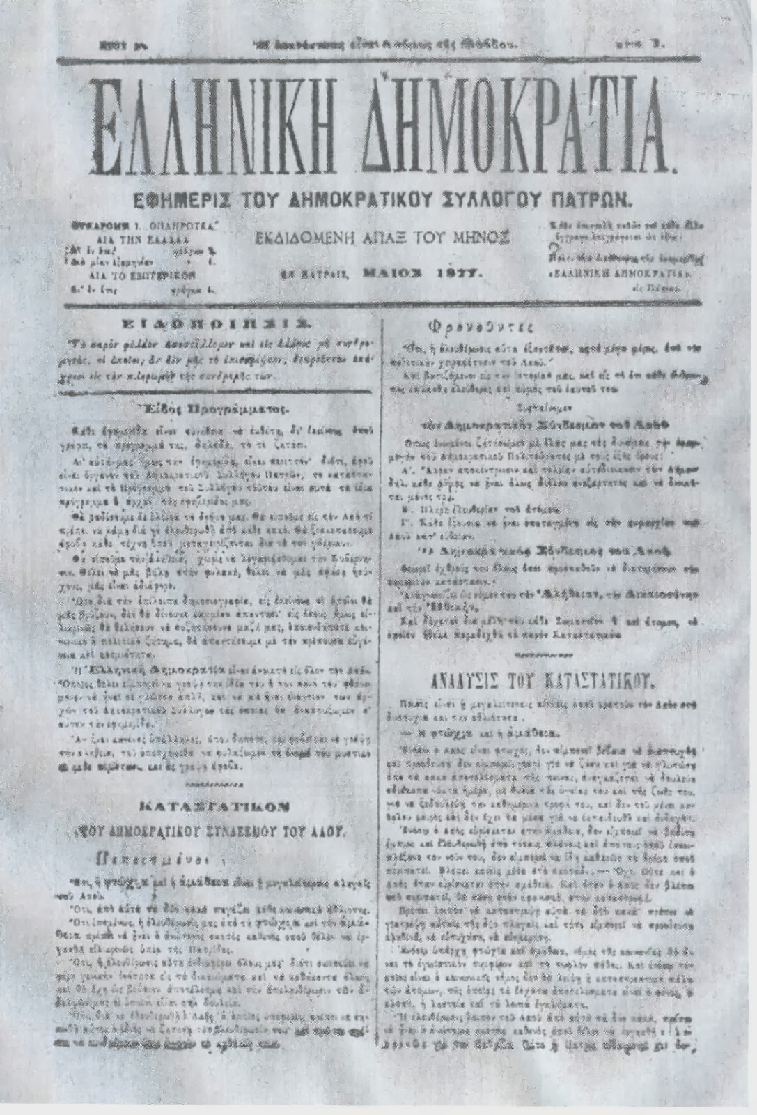 Elliniki dimokratia newspaper of Patras, May 1877